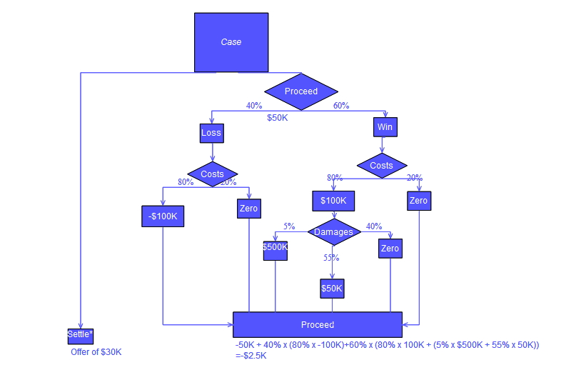 A decision tree using flow chart conventions